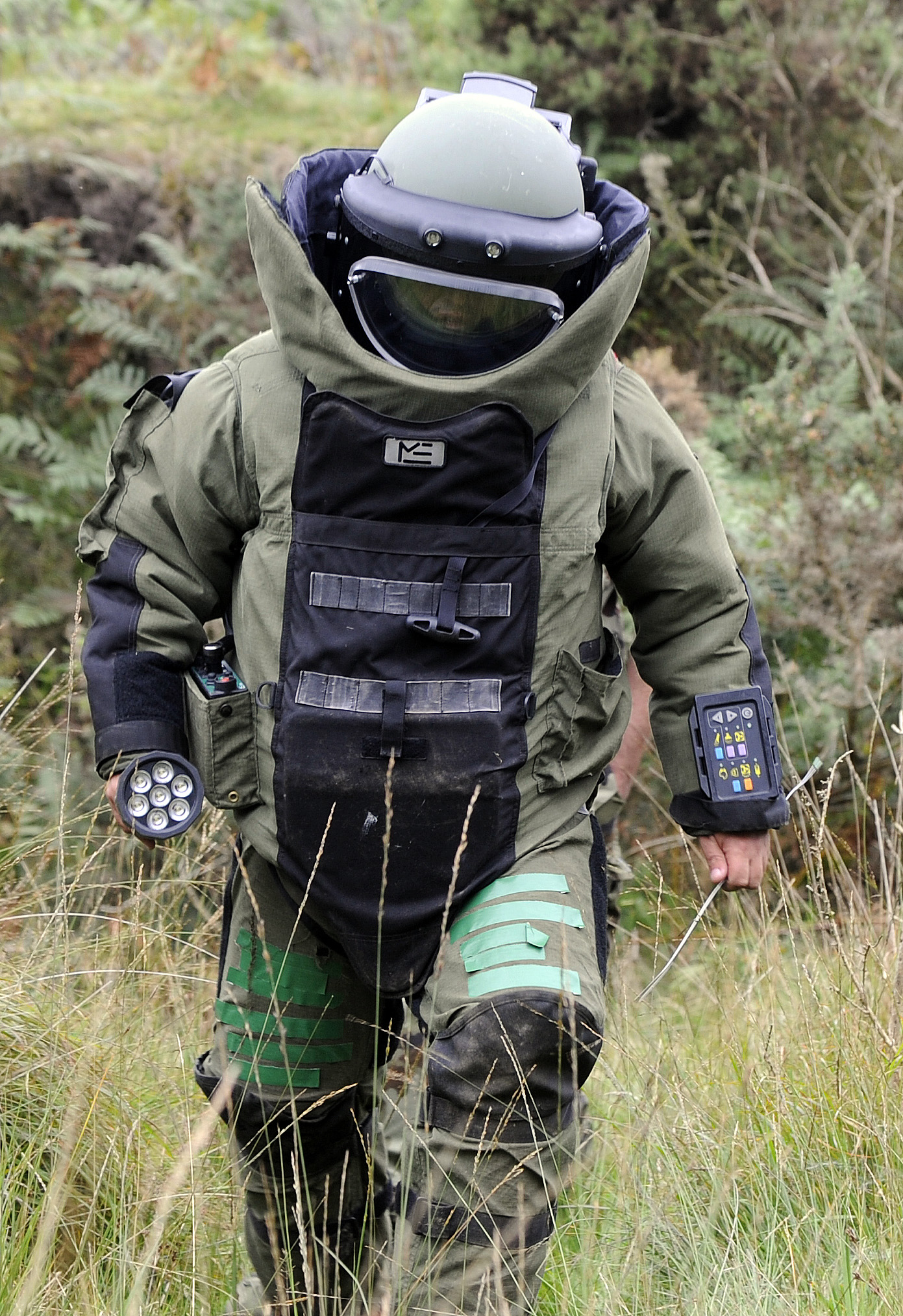 EOD Operator approaches device